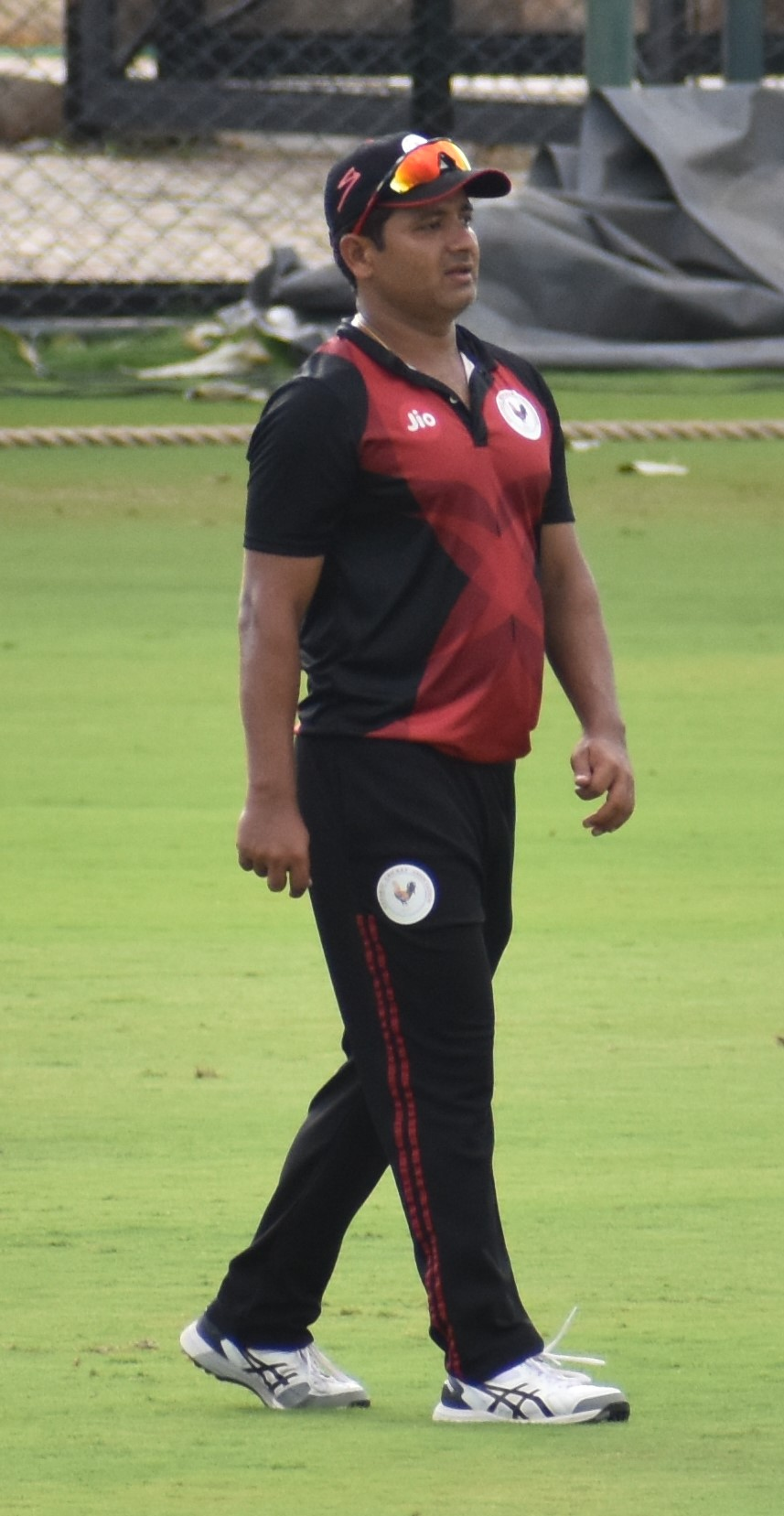 Indian cricketer Piyush Chawla during the 2019-20 Vijay Hazare Trophy in Rajanukunte, Bangalore.